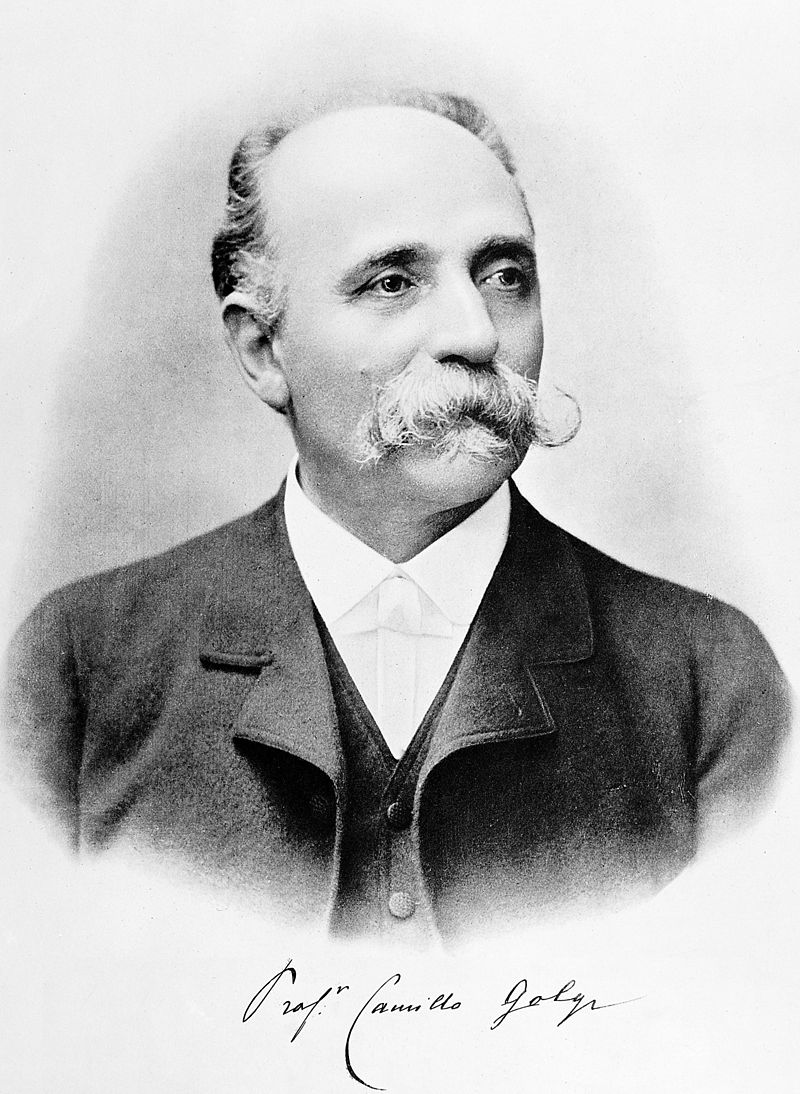 Testing again Golgi was an Italian biologist and famous neuroscientist of his time